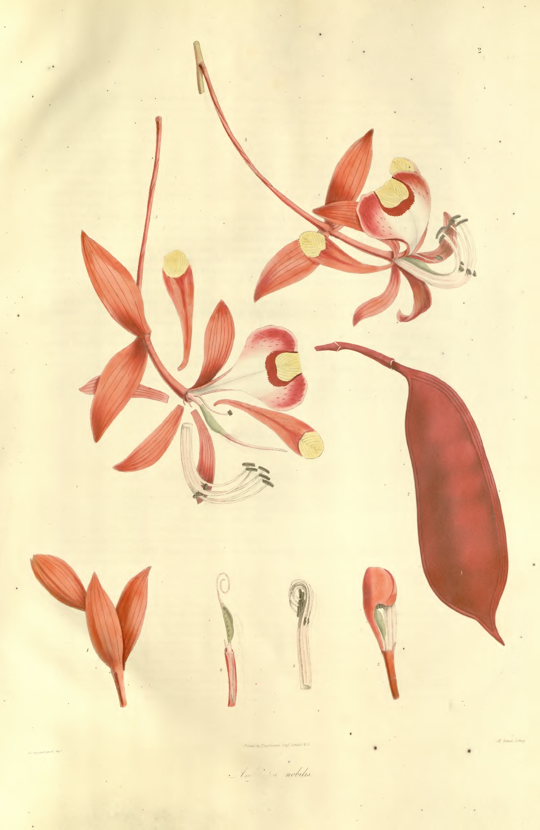 Amherstia nobilis